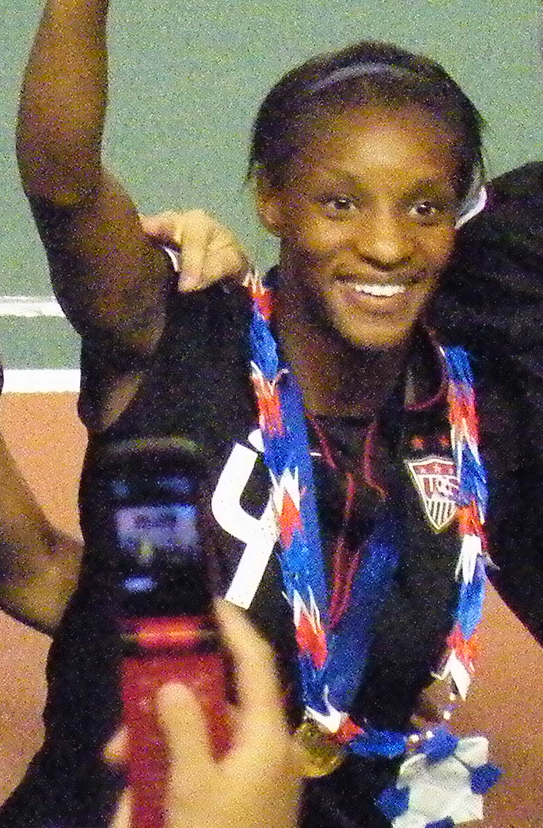 FIFA U-20 Women's World Cup 2012 Awards Ceremony; 4—Crystal Dunn